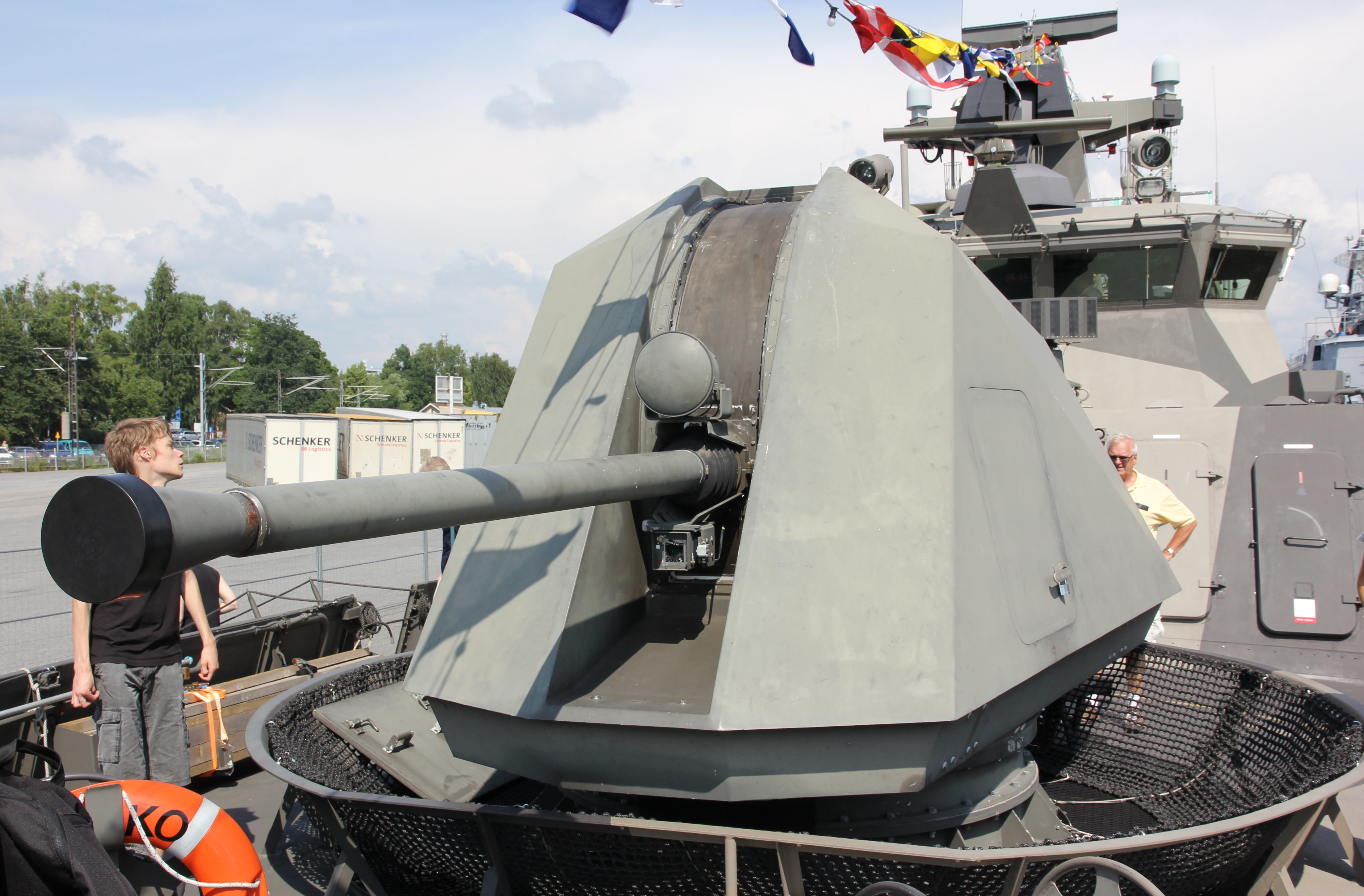 Finnish missile boat Hanko bow Bofors 57 mm Mk3. Photographed during Finnish Navy 2011 anniversary in Turku.